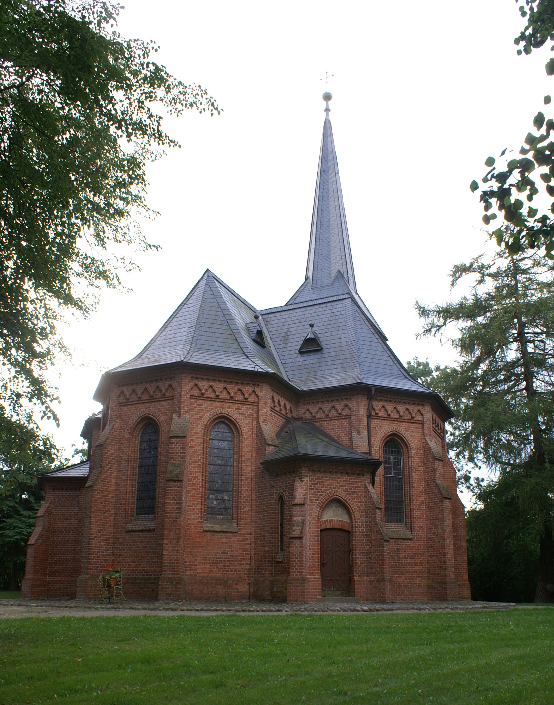 Wartislaw-Memorial-Church in Stolpe near River Peene in Mecklenburg-Vorpommern